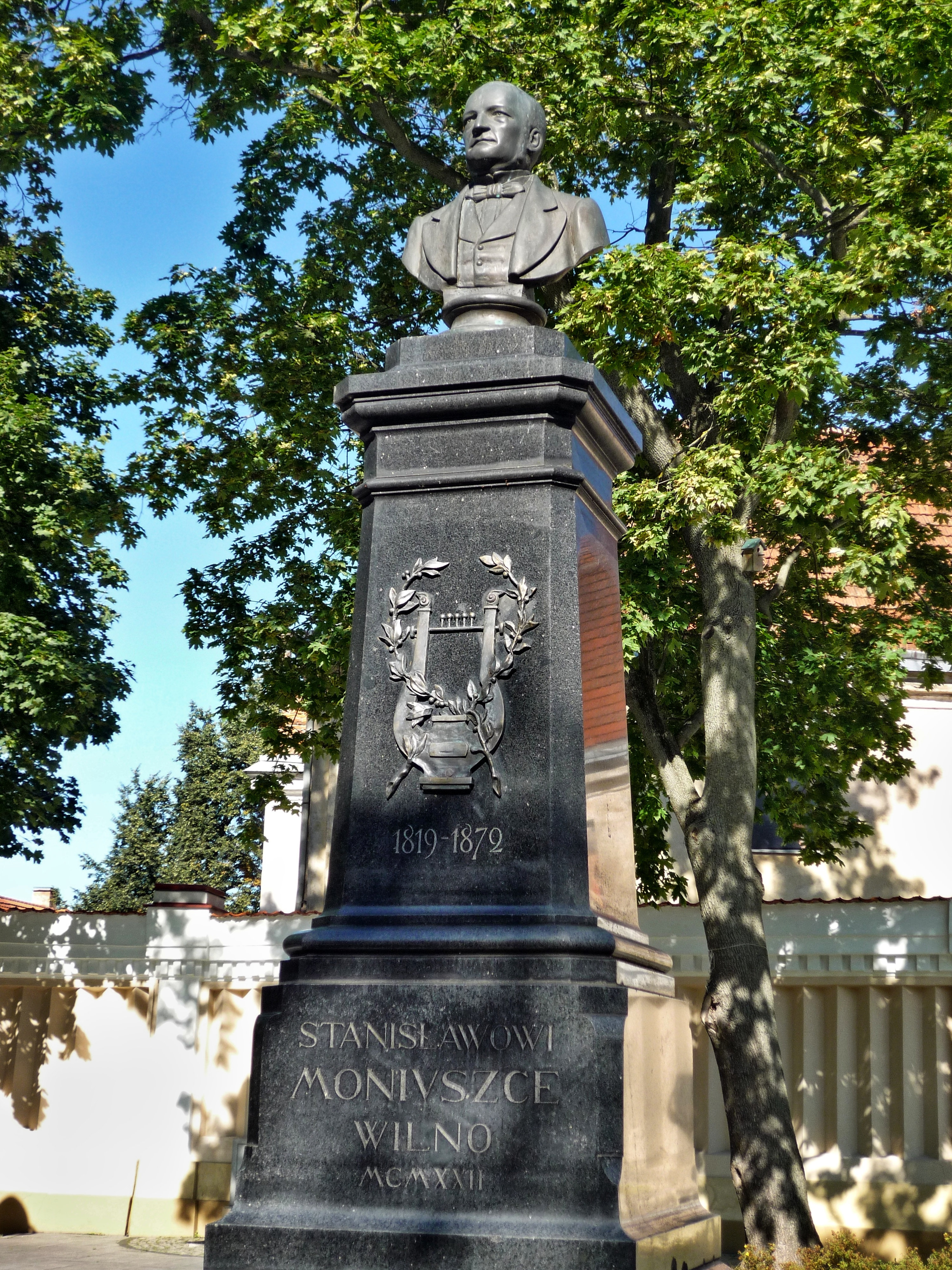 Monument of Stanislaw Moniuszko in Vilnius, next to the Church of st. Catherine